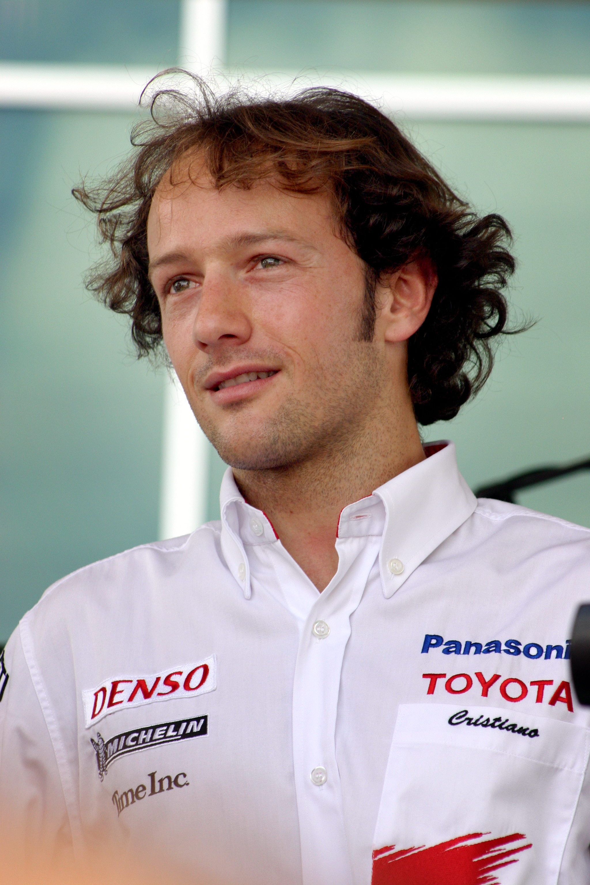 Cristiano da Matta, Indianapolis, 2004